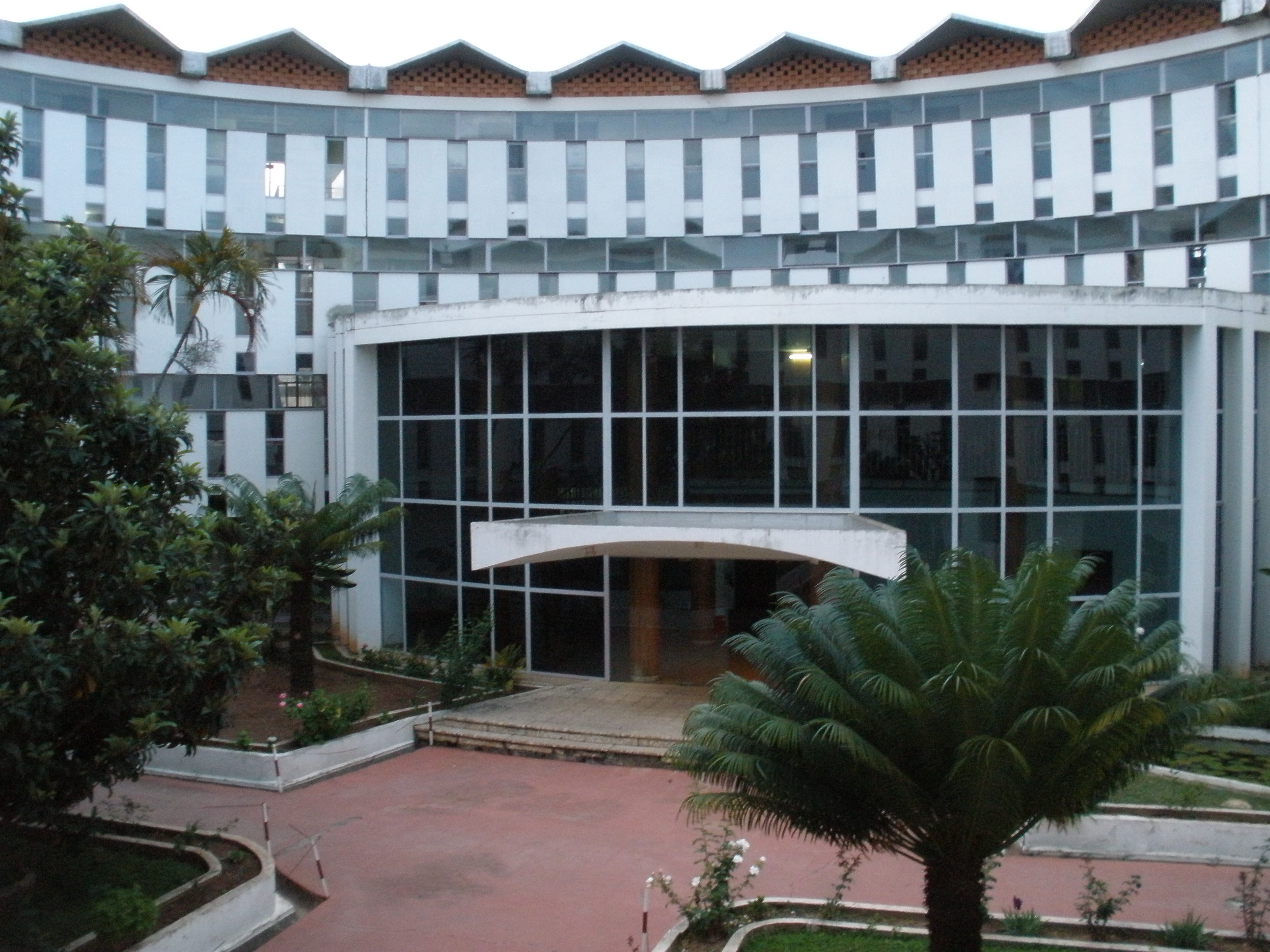 Ministry of Education (MINESEB), Antananarivo, Madagascar